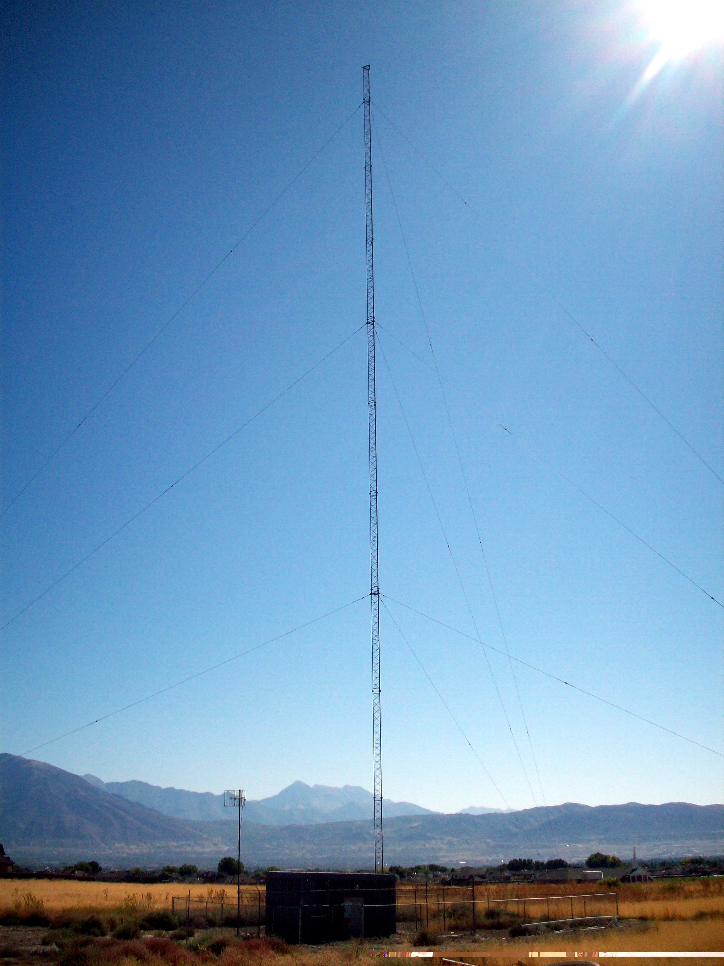 The radio tower used by KLLB 1510 AM West Jordan, Utah. It may not be in existence for that much longer. The tower also broadcasts KTKK 630 AM Sandy, Utah.